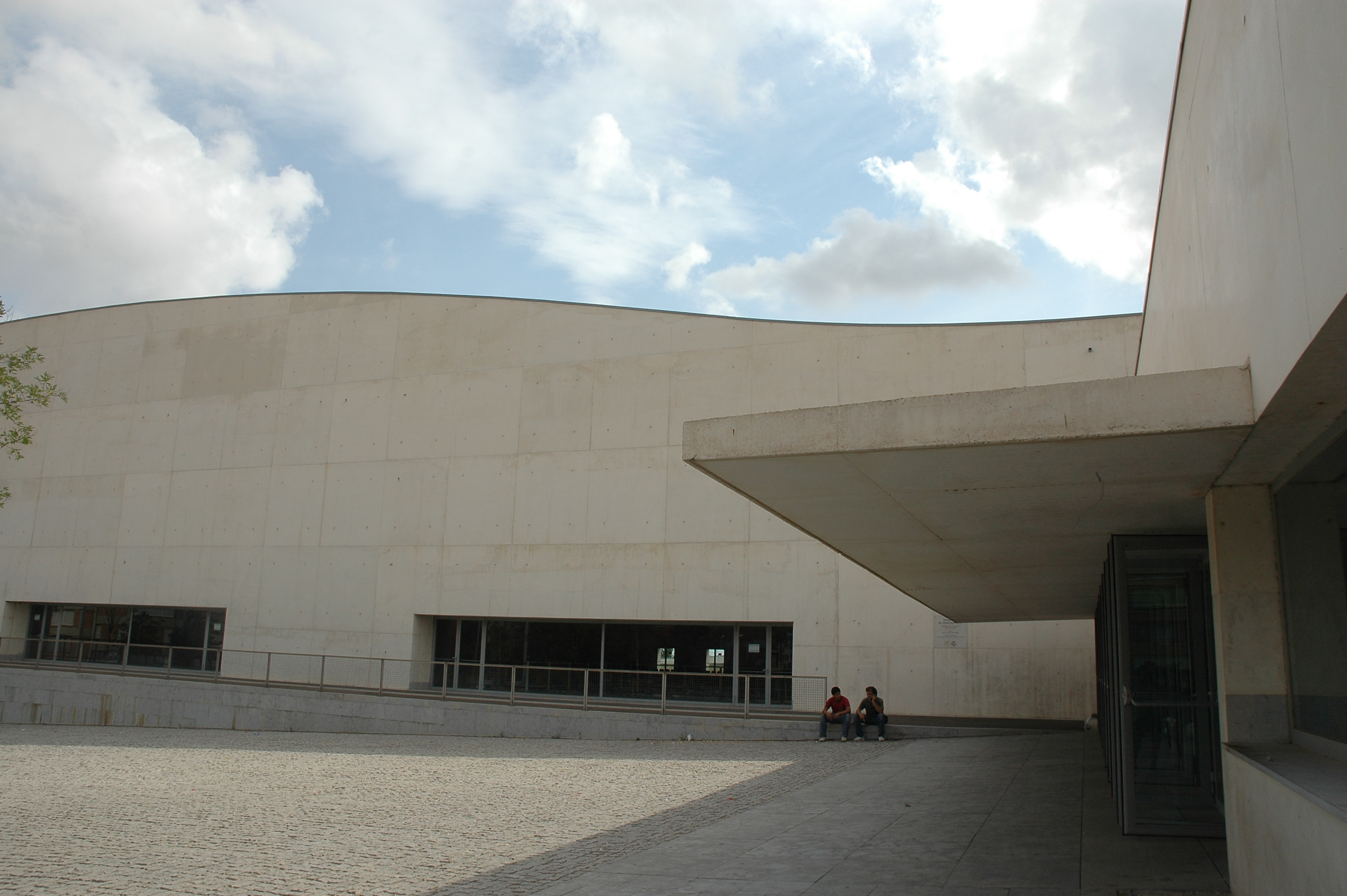 Alvaro Siza: Heavy walls for massive volumes. Llobregat Sports Centre (Cornellà de Llobregat, province of Barcelona, Catalonia).